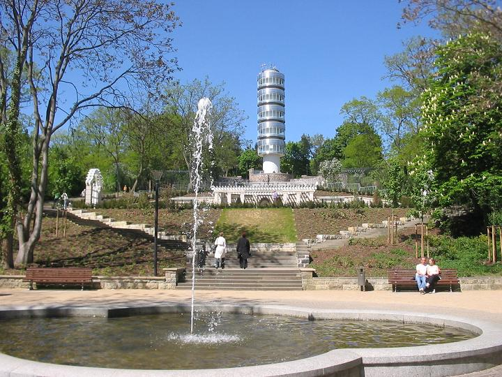 Marienberg (hill, 67,7m) with the observation tower Friedenswarte, built in 1974, in Brandenburg an der Havel, state Brandenburg, Germany.